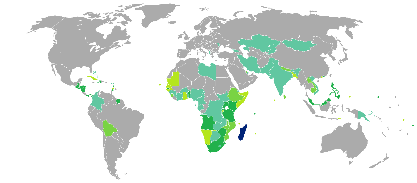 Visa requirements for Madagascar citizens Madagascar Visa free access Visa on arrival eVisa Visa required